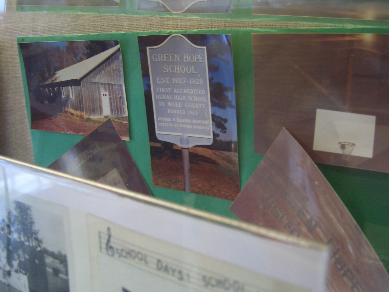 The public display case in the GHHS lobby. The case features some photographic artifacts of the original school.